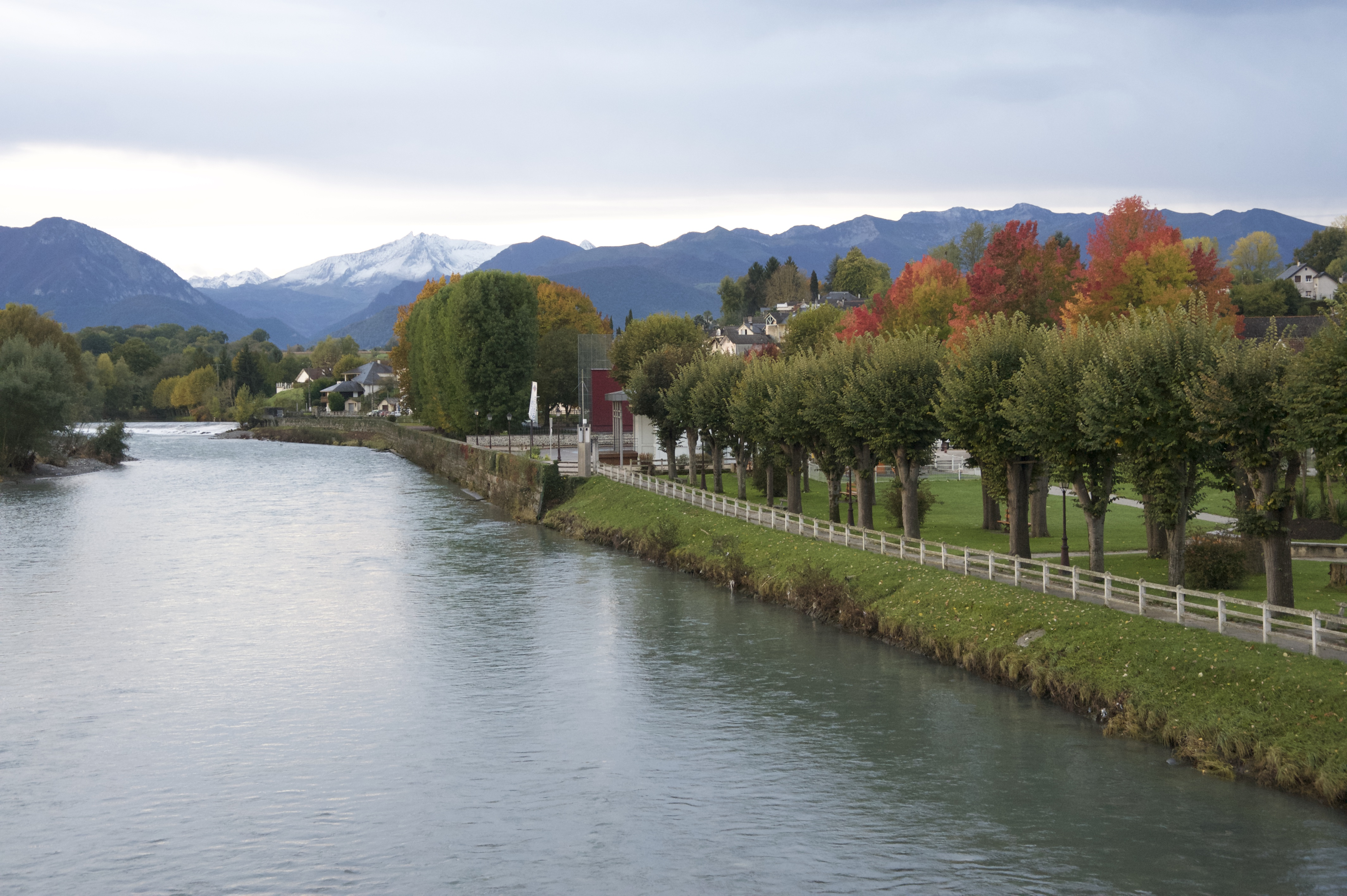 from the Nay bridge... a fall day